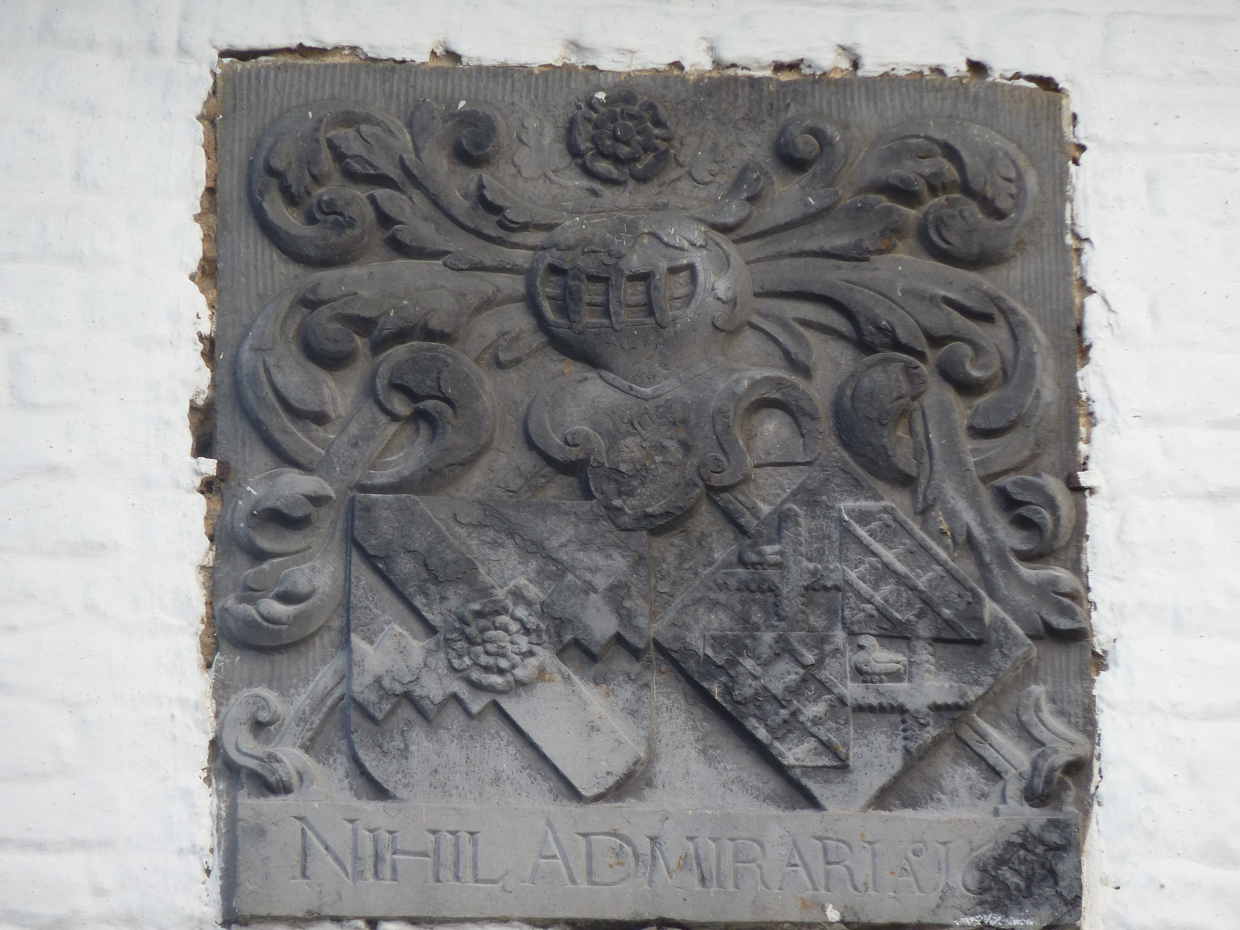 Sint Antoniusbank 27, Bemelen, Limburg, the Netherlands